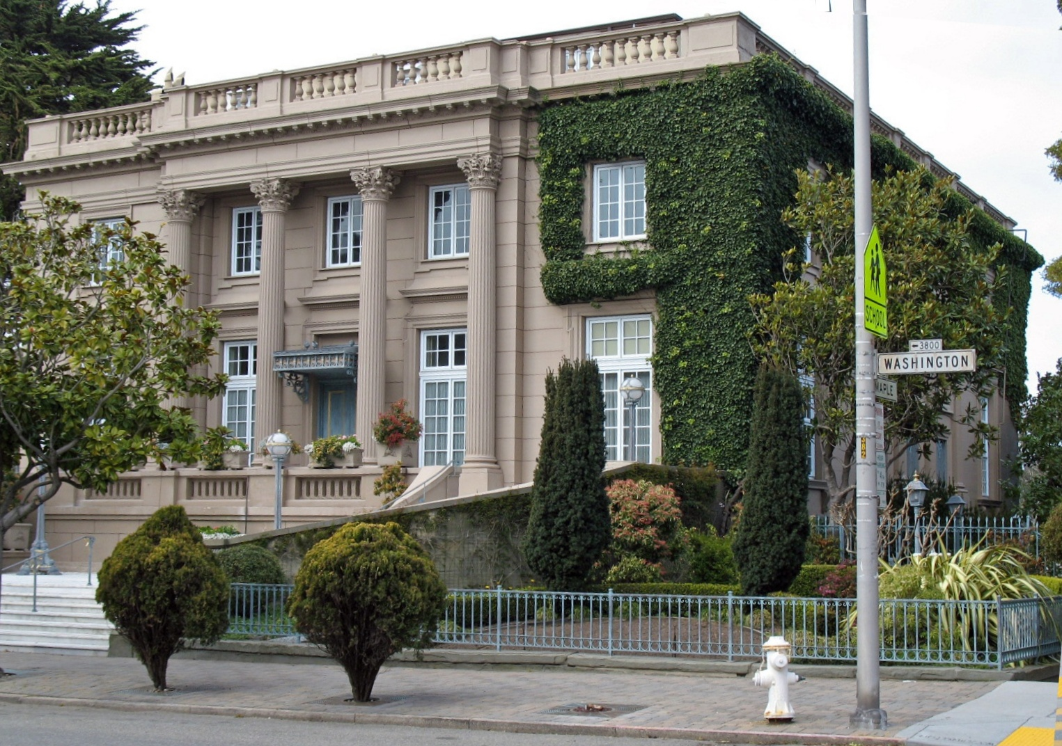 National Register of Historic Places in San Francisco, California. Koshland House, 3800 Washington St., San Francisco, CA. Photographed 2008-02-17 by Mike Hofmann at street level from southwest corner of Washington St. and Maple St.